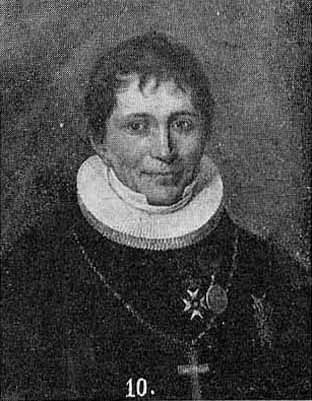 Johan Storm Munch (senior), Norwegian bishop died 1832